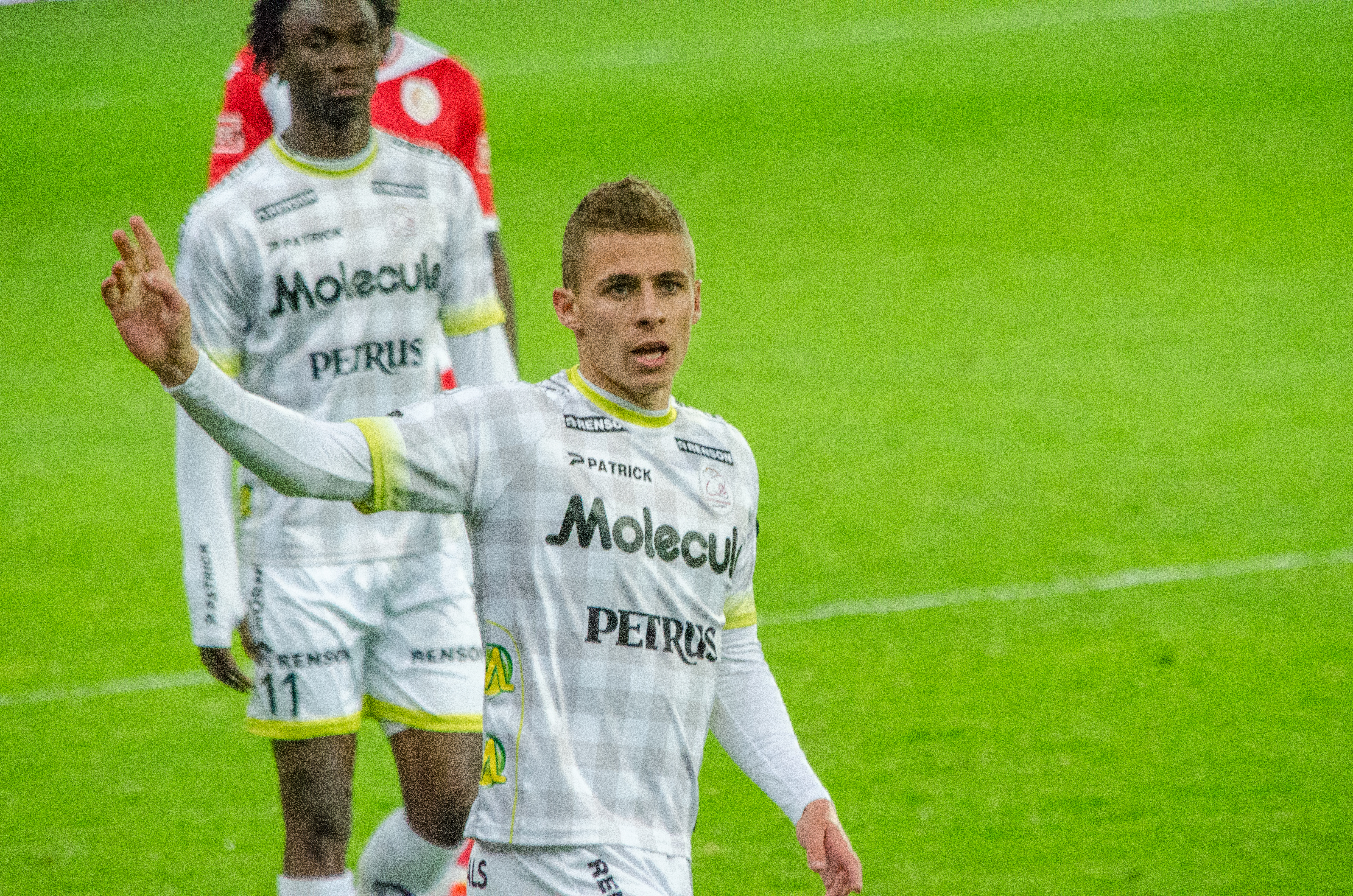 Thorgan Hazard playing for Zulte Waregem in 2014